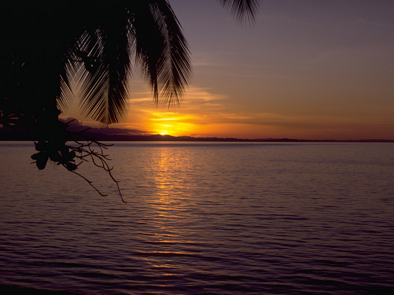 Sun setting over Lake Malawi at Cape Macclear, Malawi.